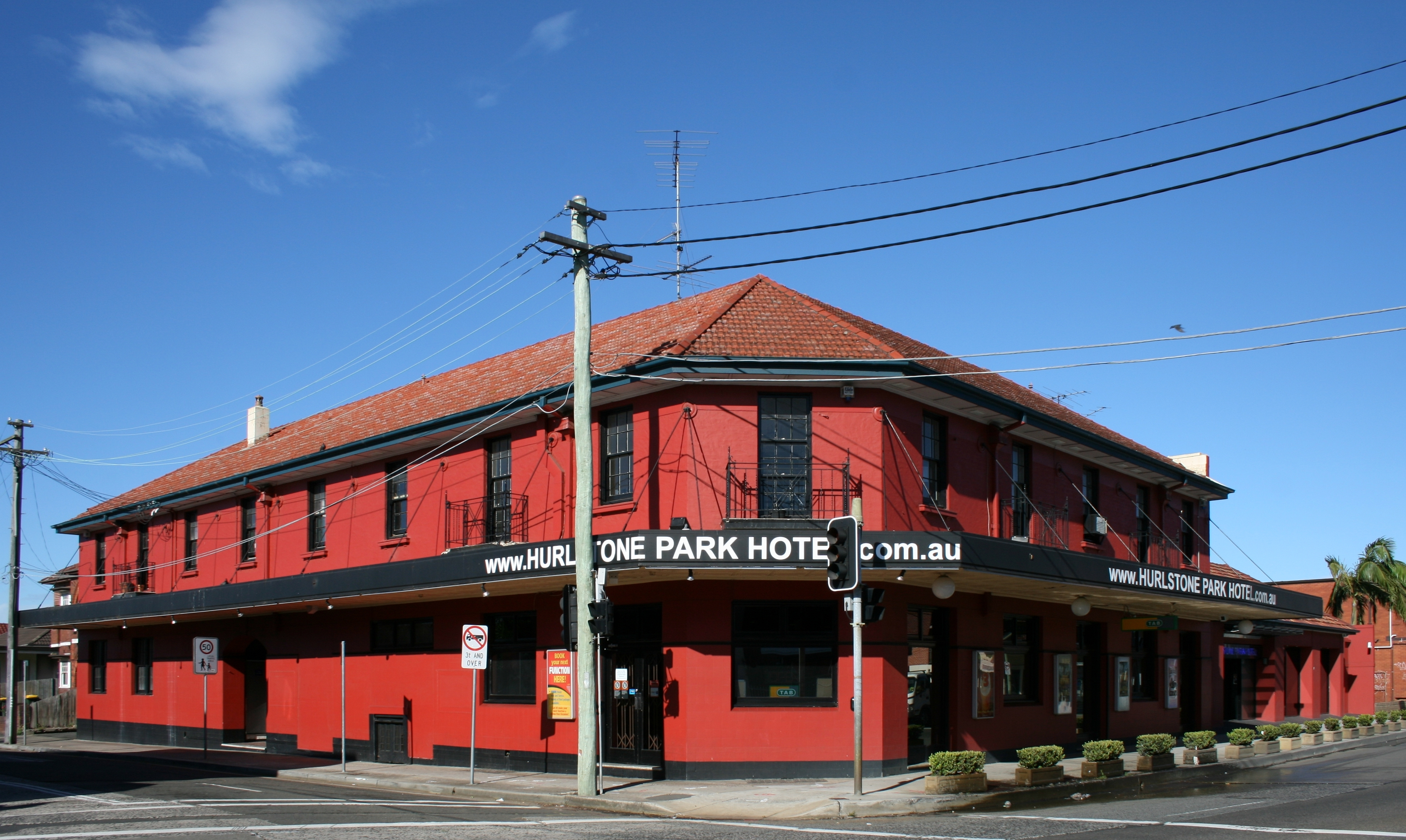 The Hurlstone Park Hotel on New Canterbury Road, Hurlstone Park, New South Wales, Australia.